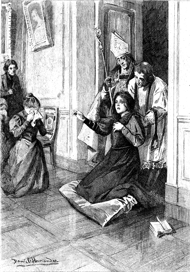 Illustration of Honoré de Balzac's The Village Cure (1841): Public Confession of Madame Graslin.